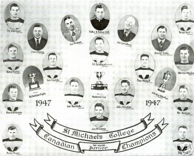 Memorial Cup champions poster.